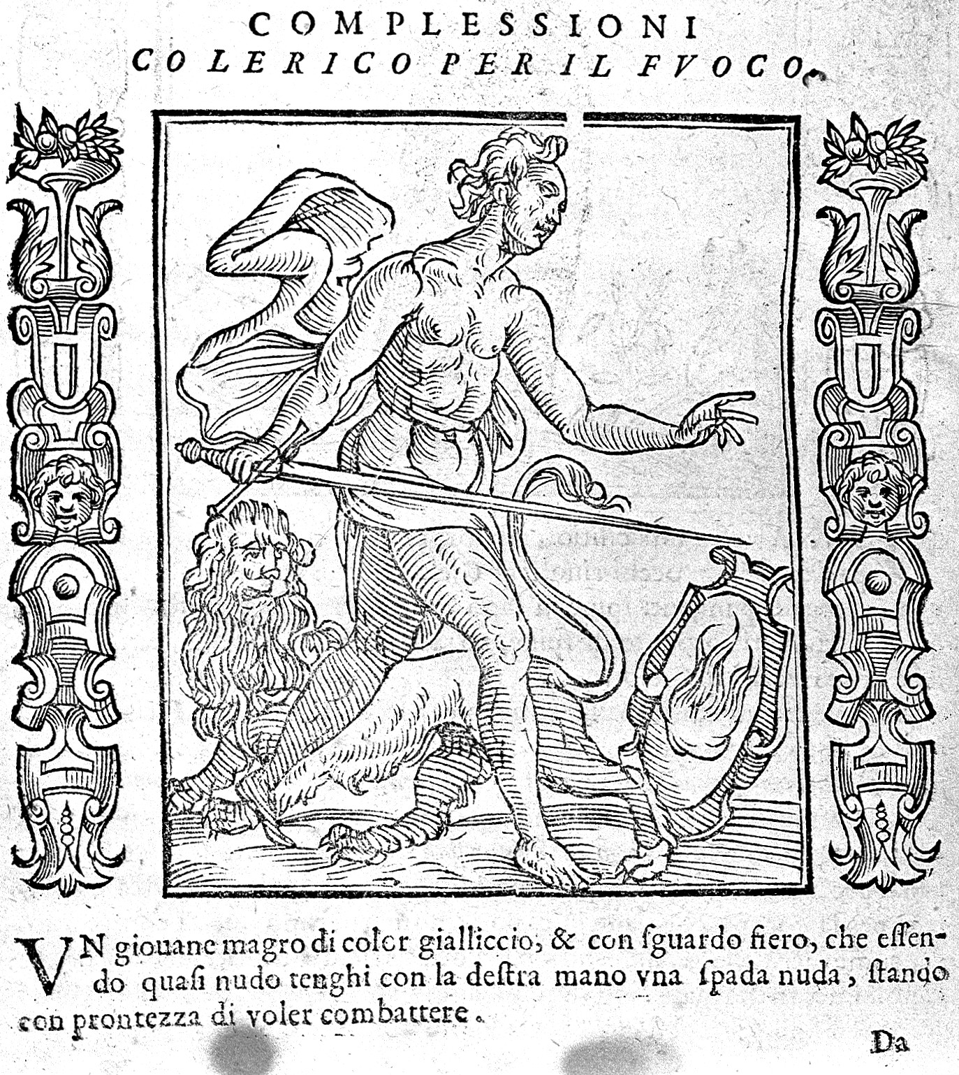 Warrior with fire on coat of arms, corresponding to temperament based on choleric humour. Part of a set of figures representing the four temperaments, (It. 'complessioni') determined by the four humours, and showing their affinities with the elements. Rare Books Keywords: 17th century; choleric; humours; temperaments